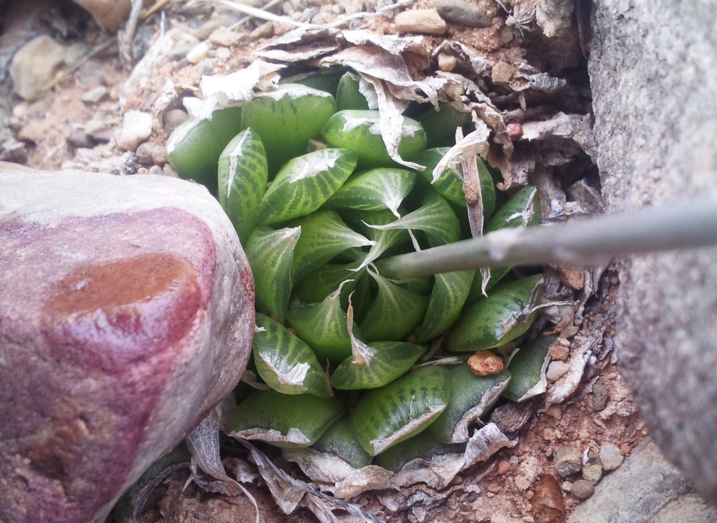 Haworthia lockwoodii - green and turgid after winter rains